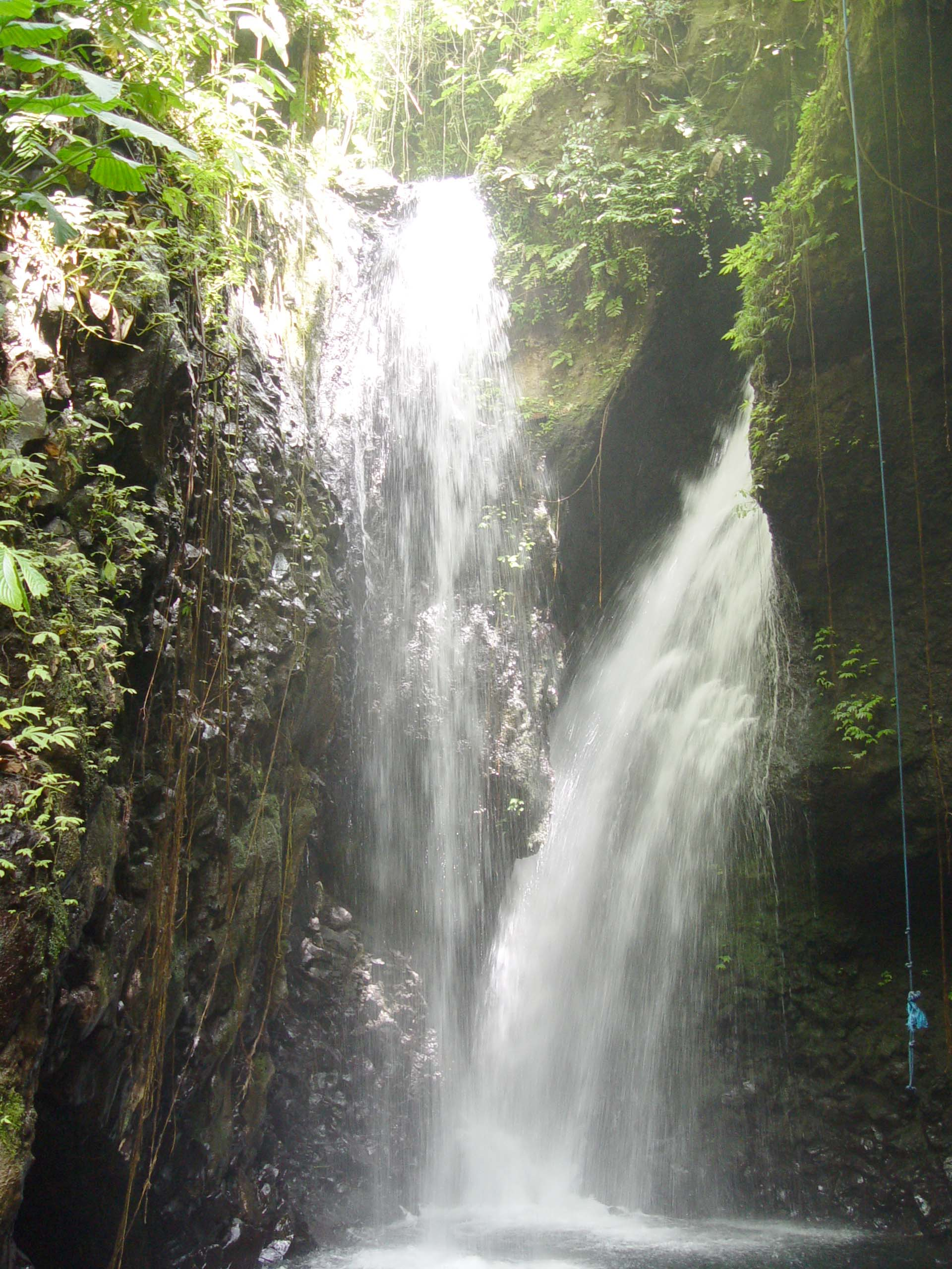 Gitgit waterfall, Sukasada, Buleleng, Bali, Indonesia.